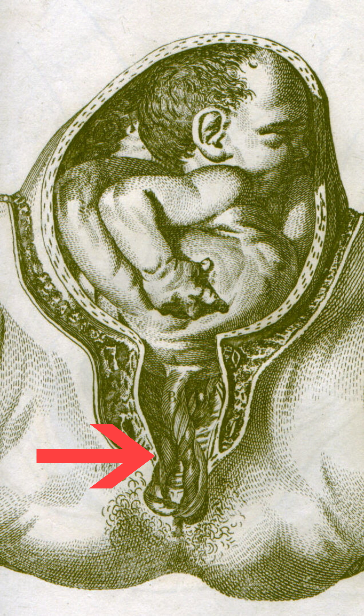 Cord prolapse, by W.Smellie, 1792